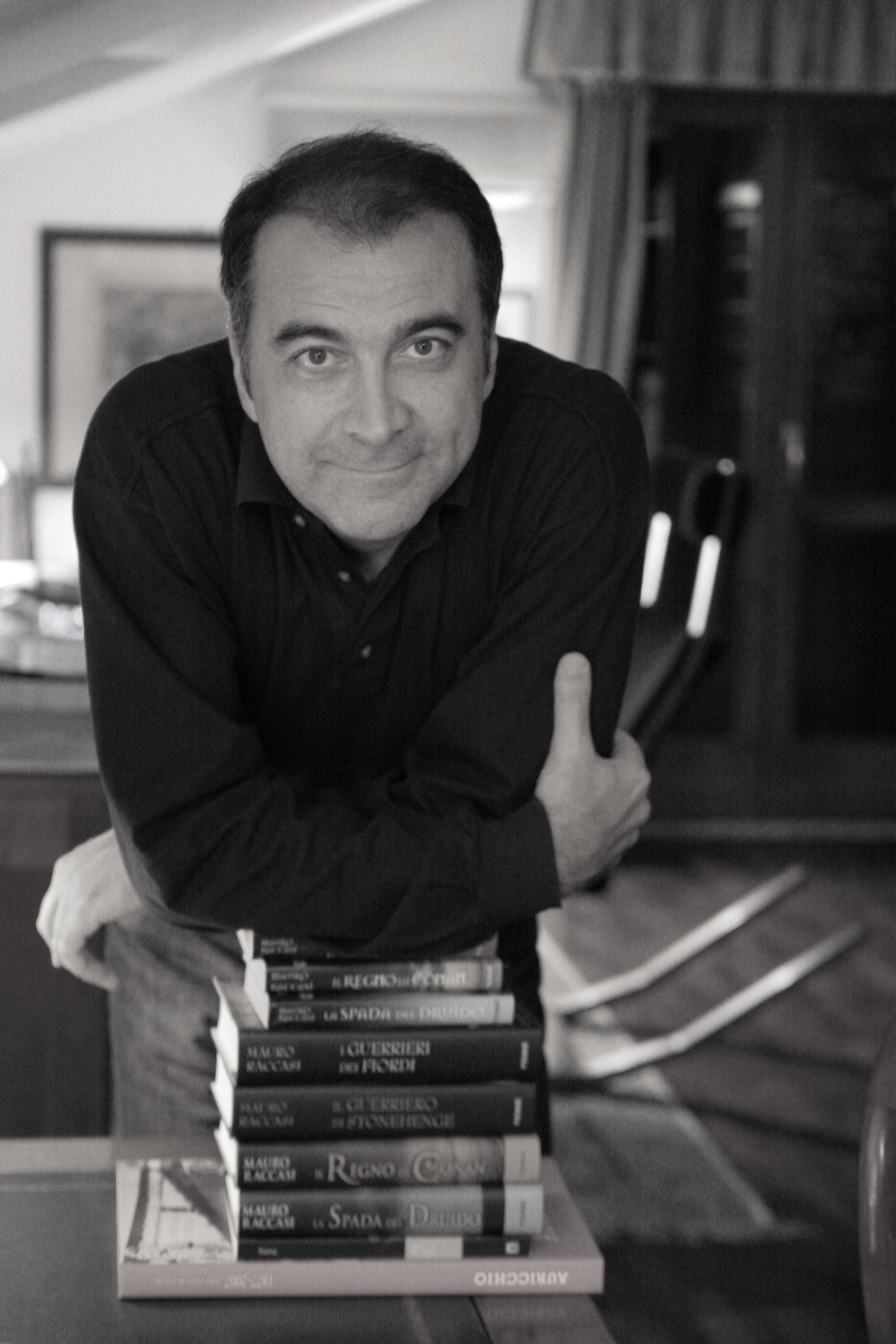 Mauro Martini Raccasi Official